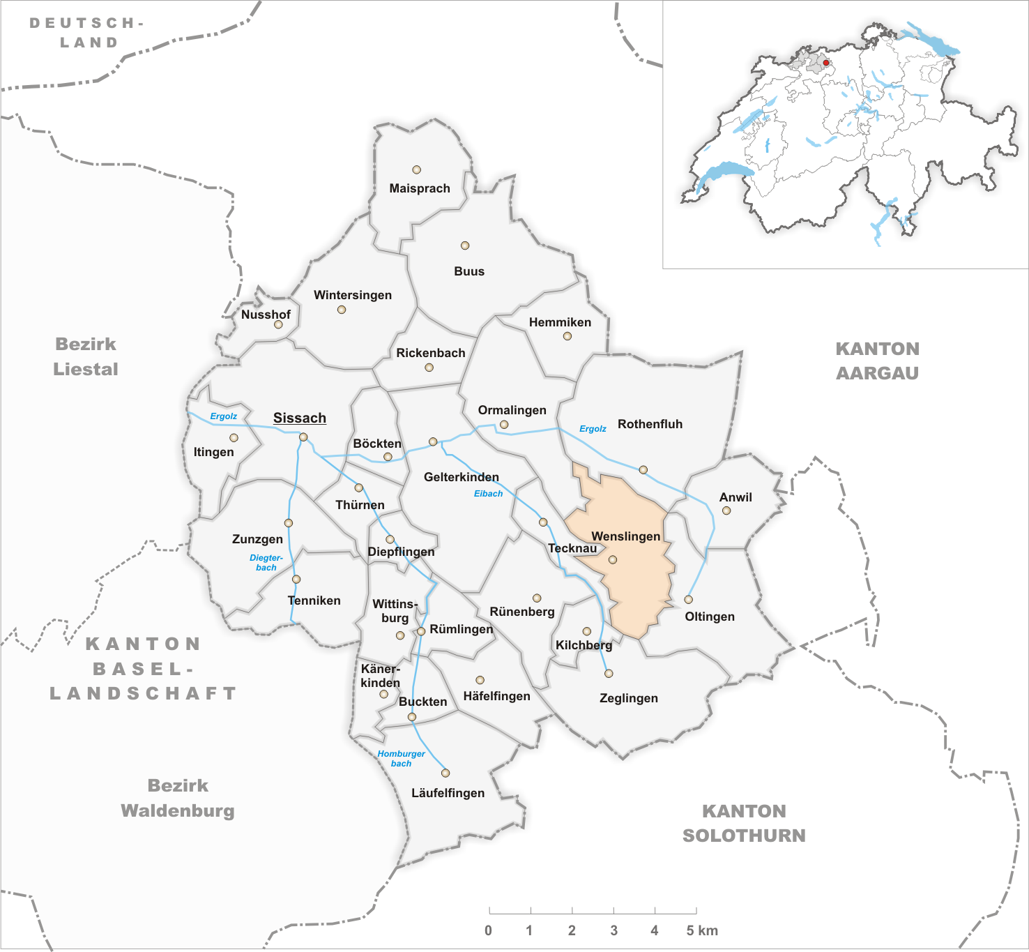 Municipality Wenslingen